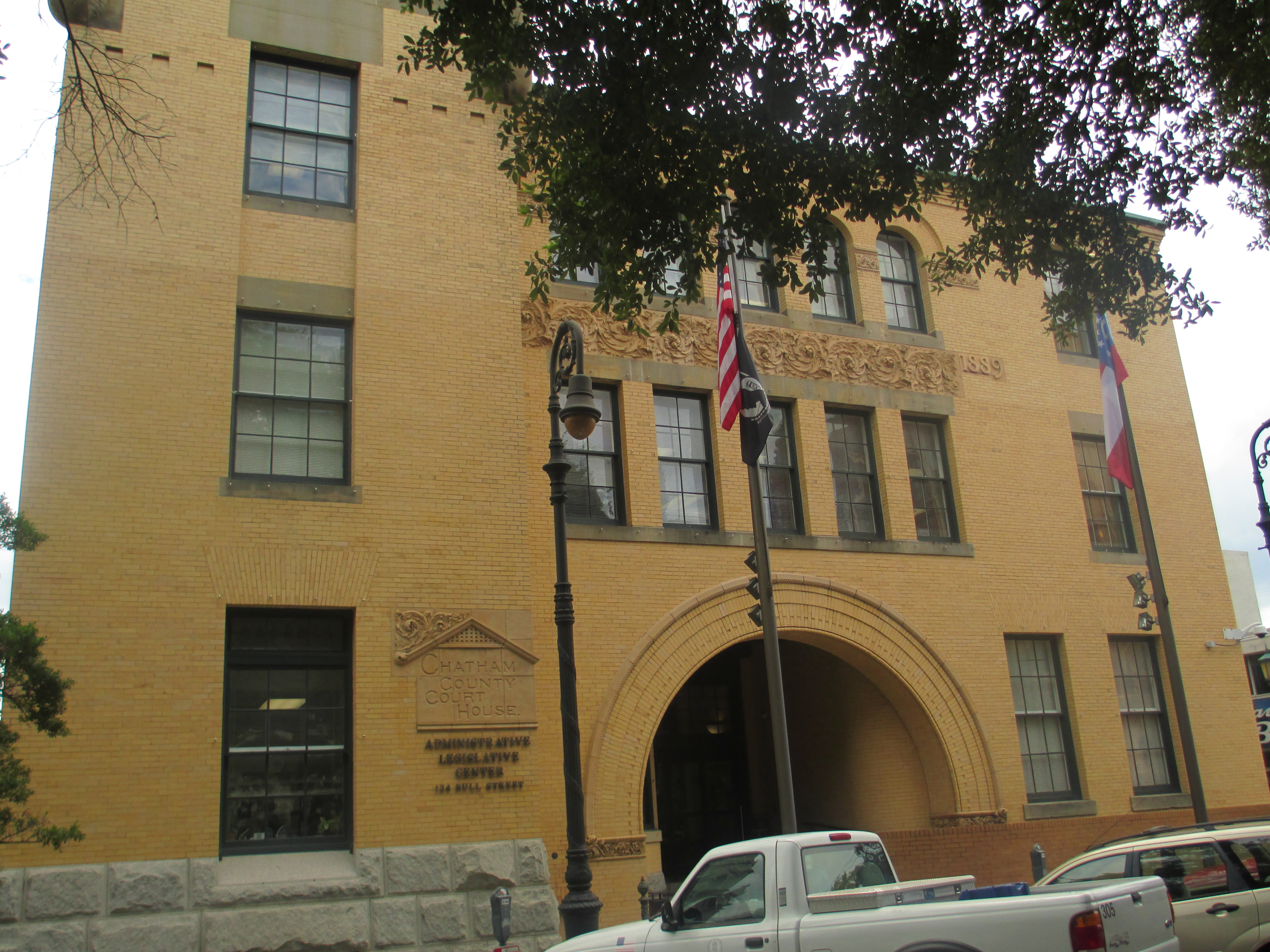 I took photo with Canon camera of Chatham County Courthouse in Savannah.